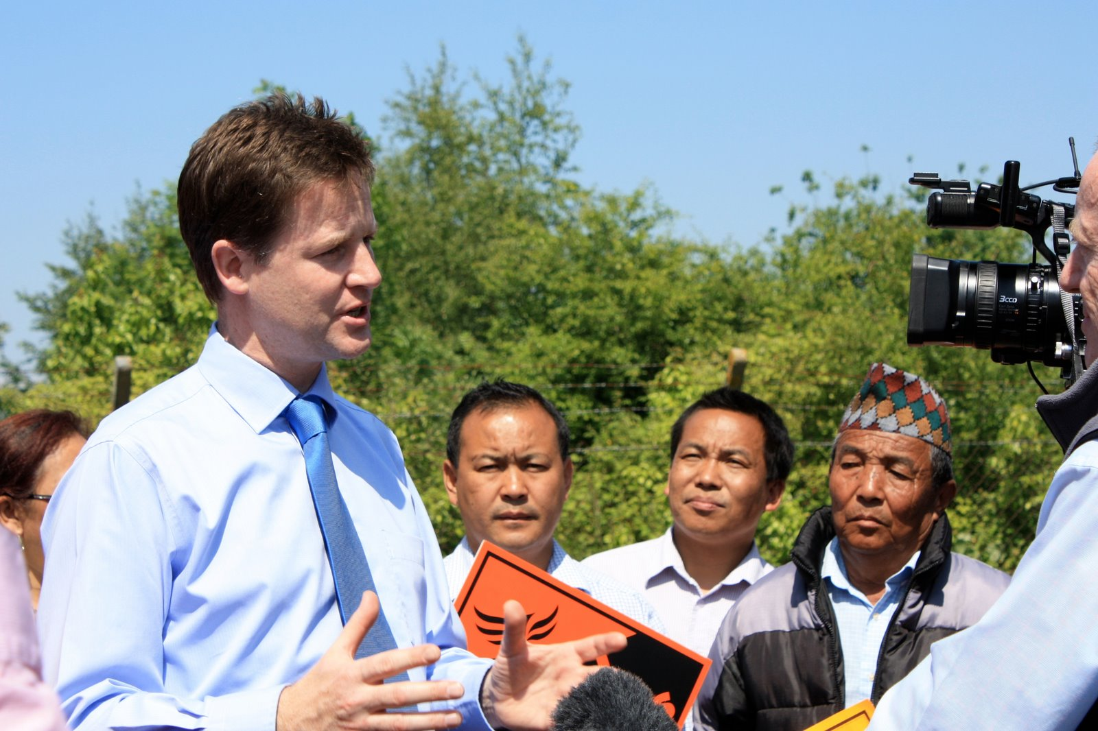 Nick Clegg, Leader of the Liberal Democrats in Maidstone celebrating with the Gurkhas following their historic victory